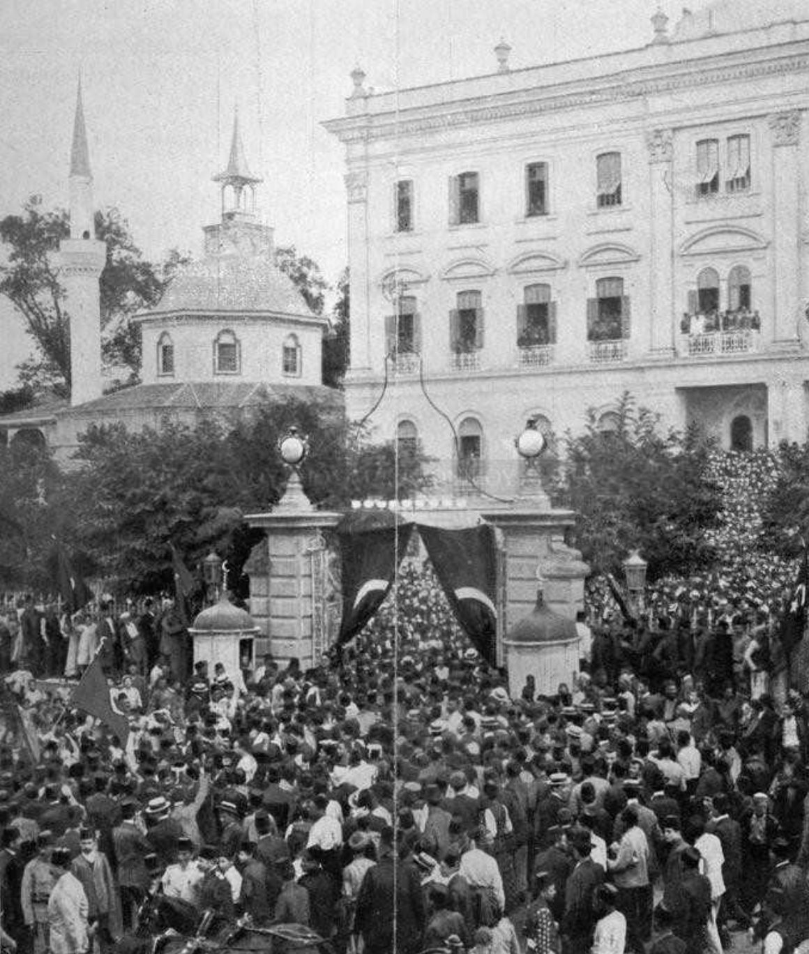 Saatli mosque and Governor's house in Thessaloniki - before 1912